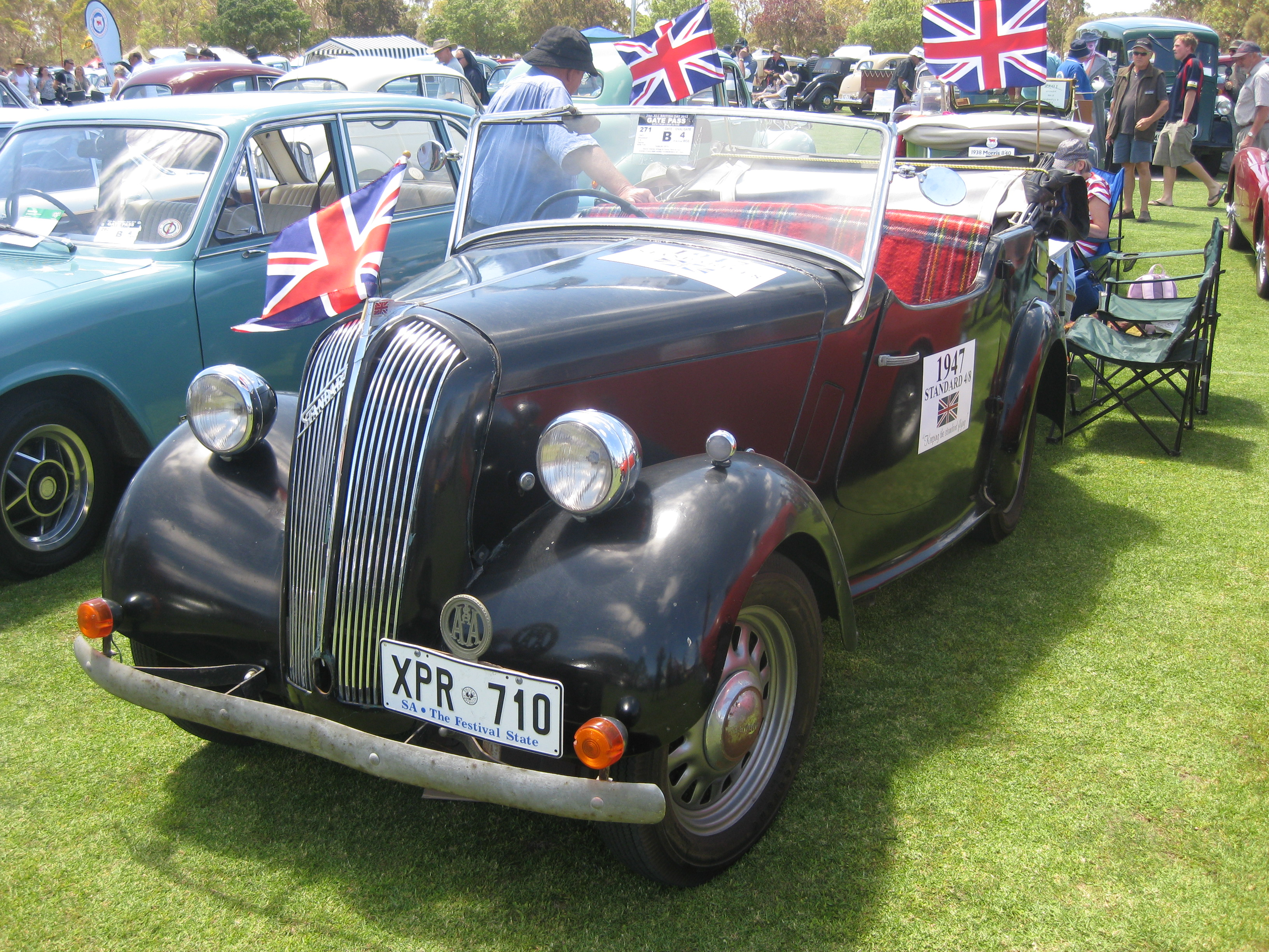 Standard 8 Tourer of 1947